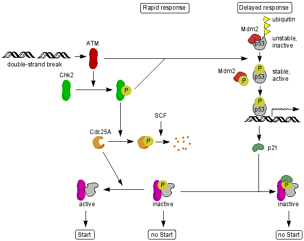 target proteins of kinase ATM